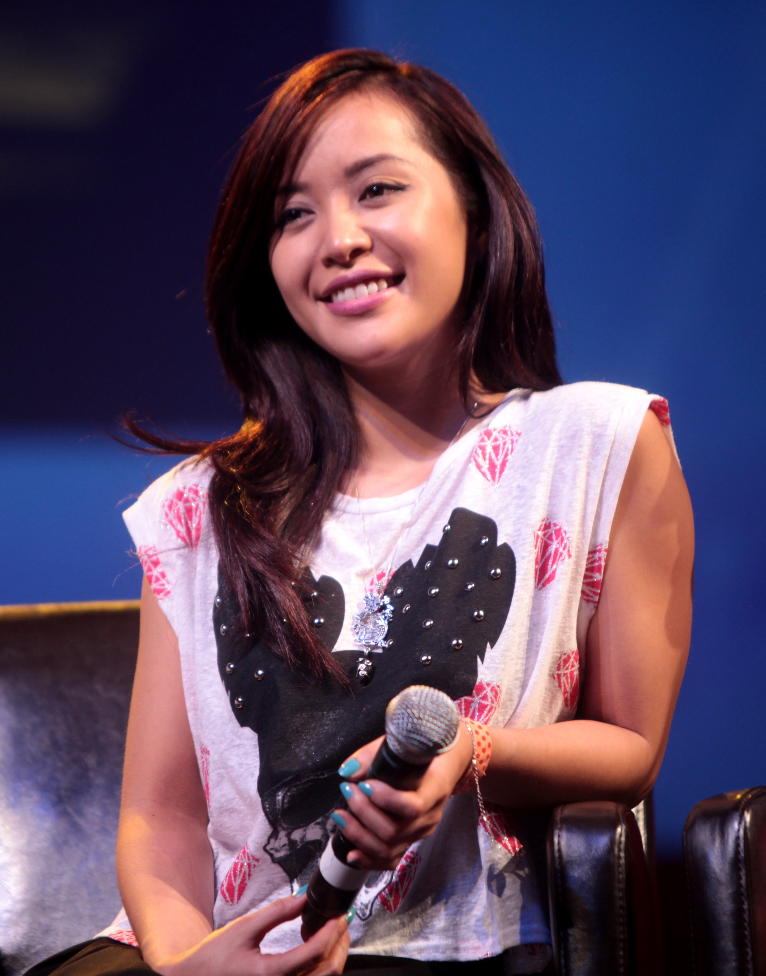 American YouTube personality and cosmetics demonstrator Michelle Phan speaking at the 2014 VidCon at the Anaheim Convention Center in Anaheim, California.